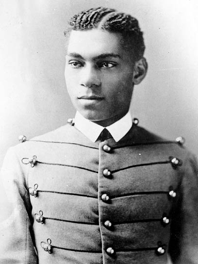 Photograph of Henry Ossian Flipper in his West Point cadet uniform. (